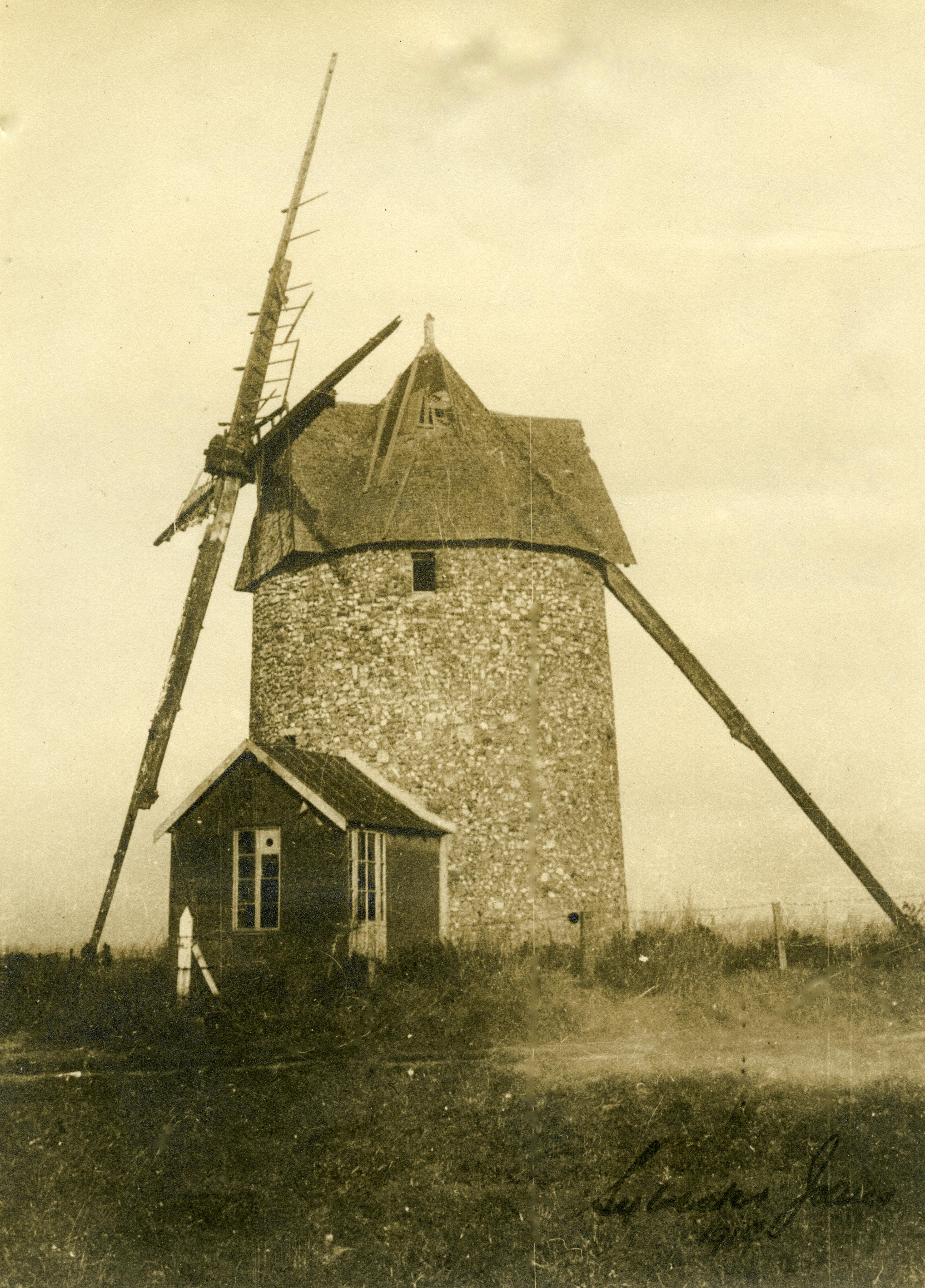 A landmark well known to New Zealand Soldiers in World War I who would pass through the Base Depot of Etaples, France. Earlier on in the war it was used as a listening post for the French Army. It later adjoined the NZEF [New Zealand Expeditionary Force] General Base Depot. Archives New Zealand Reference: PC4 1646/1918